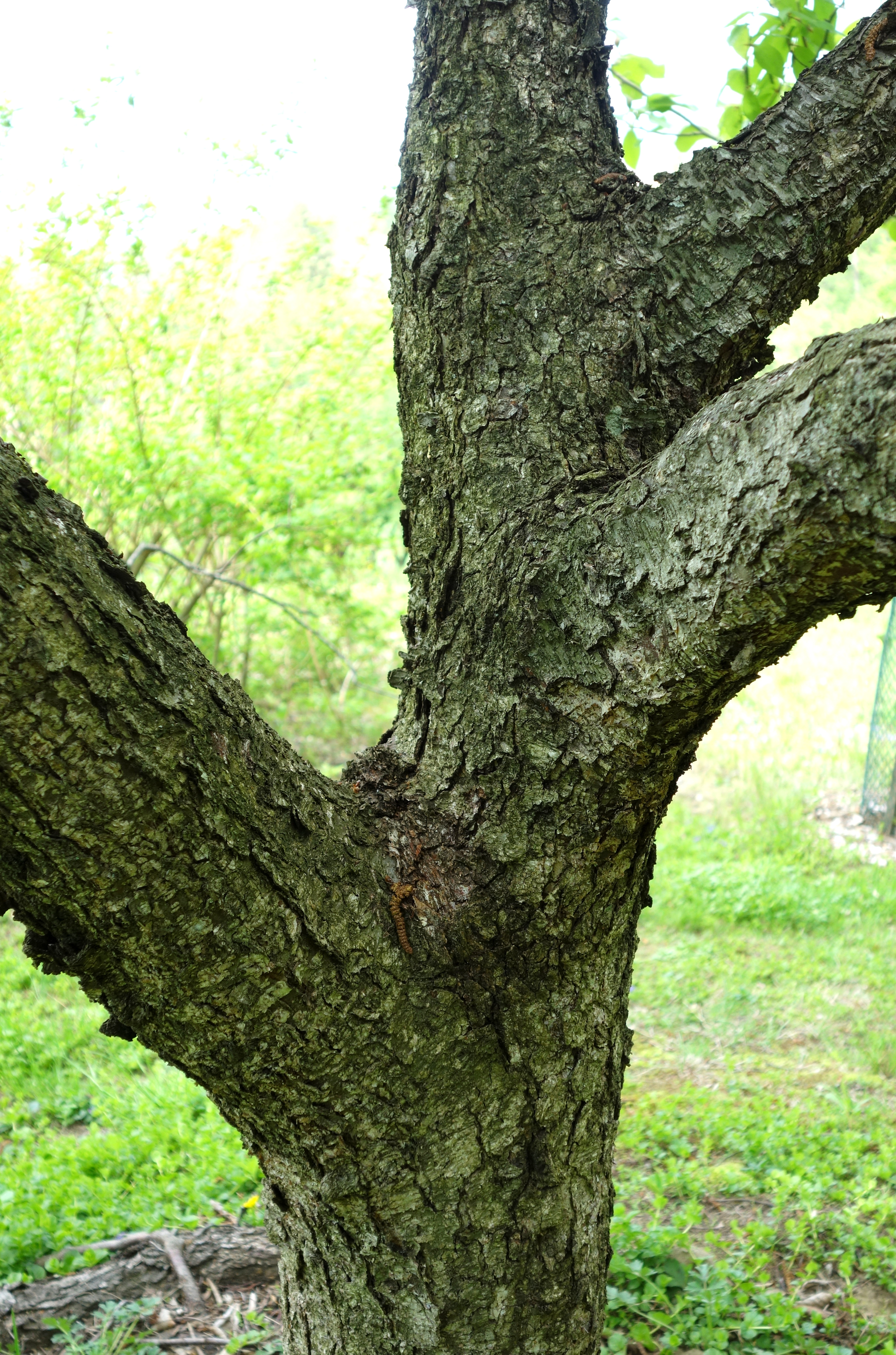 Botanical specimen in the Morris Arboretum, 100 East Northwestern Avenue, Chestnut Hill, Philadelphia, Pennsylvania, USA.